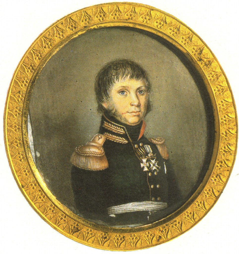 Figner Alexander Samoilovich